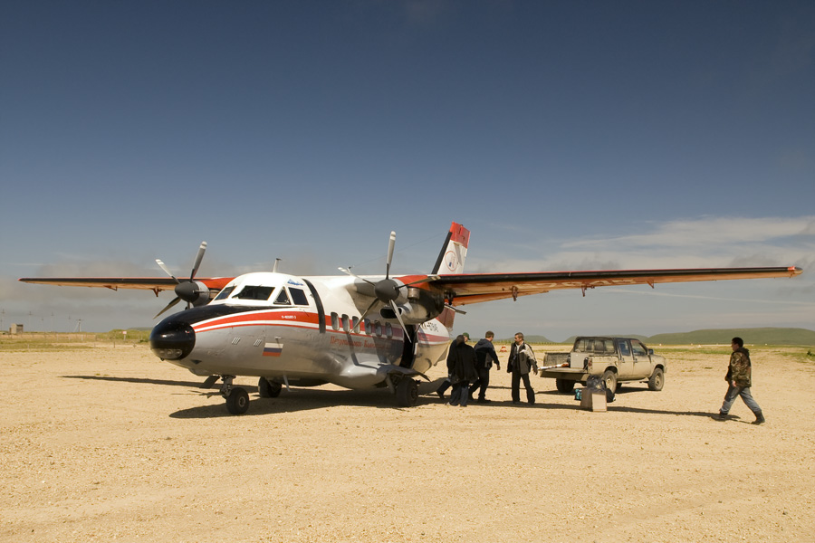 Nikolskoe airport. The Komandorskie Islands.